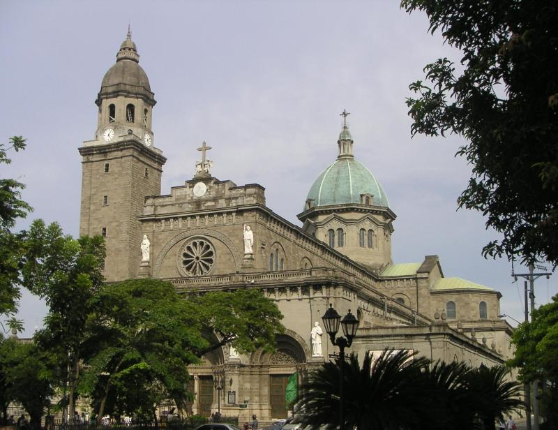 Cathedral of Manila picture made by (WT-shared) Thorsten.